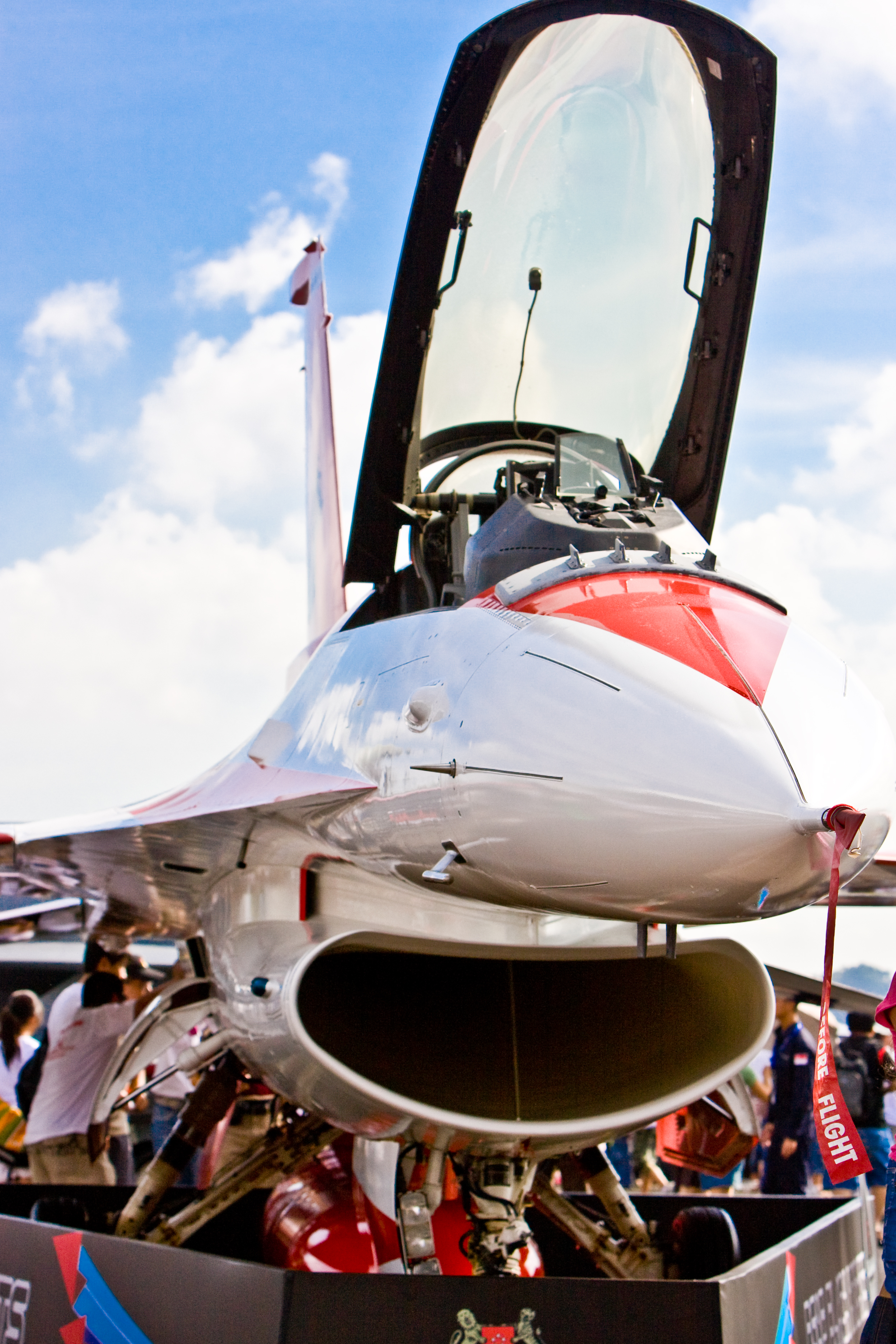 Republic of Singapore Air Force F-16 on static display